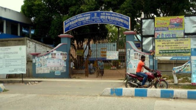 BDO Jirat